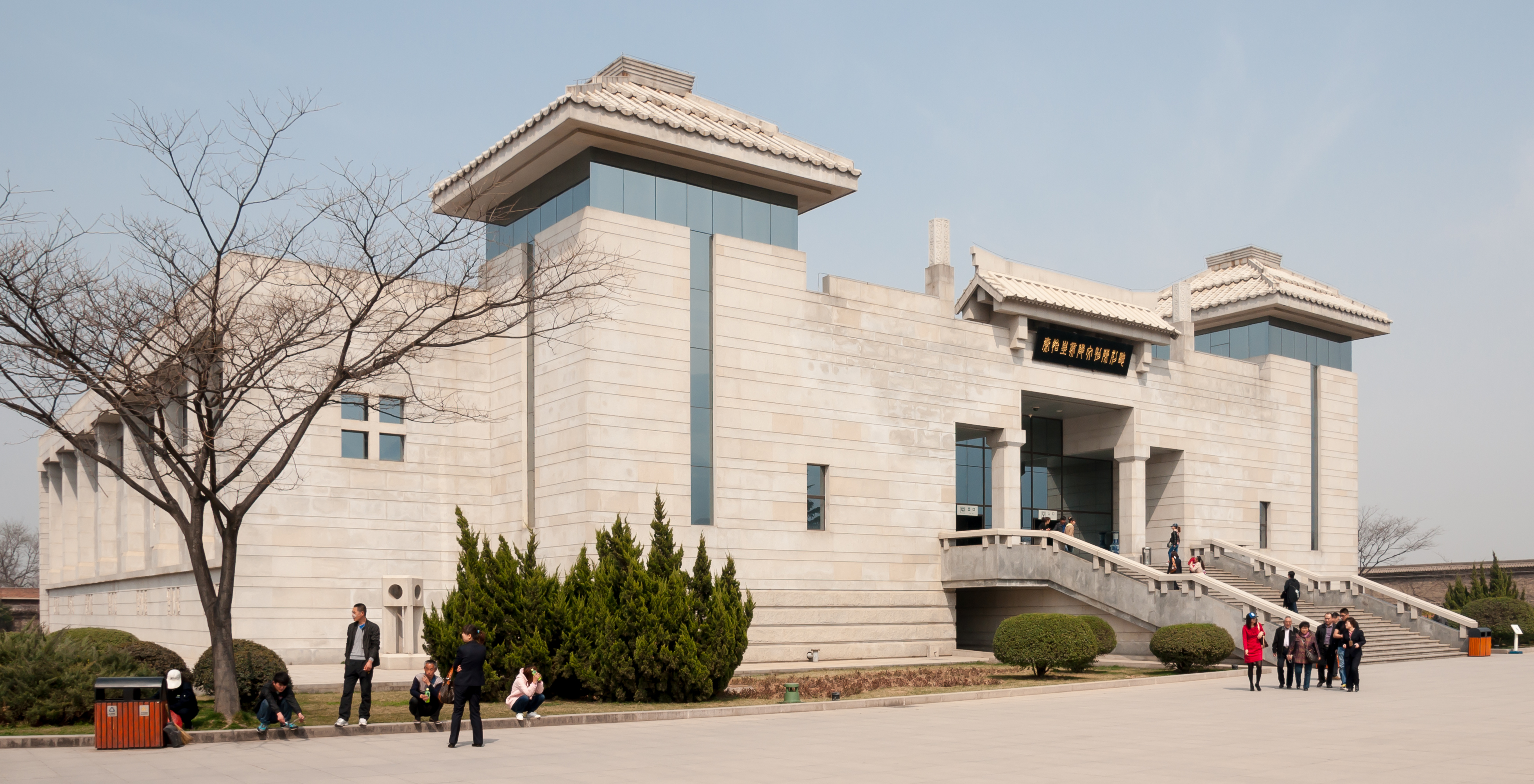 Xi'an, China: Exhibition hall in the Museum of the Terracotta Army